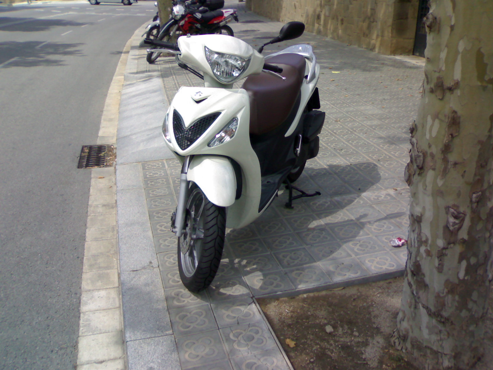 Suzuki Sixteen 150 parked in Barcelona.